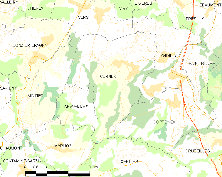 Map of French municipality Cernex